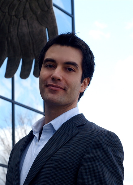 Eric Litman - Chairman and CEO of Medialets